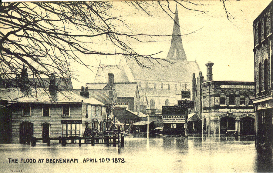 Beckenham flood 10th April 1878